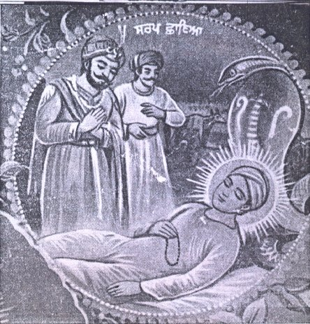 Rai Bular Bhatti is enchanted to see Guru Nanak being protected from the sun by a Cobra. This is one of the many instances which rai Bular witnessed.